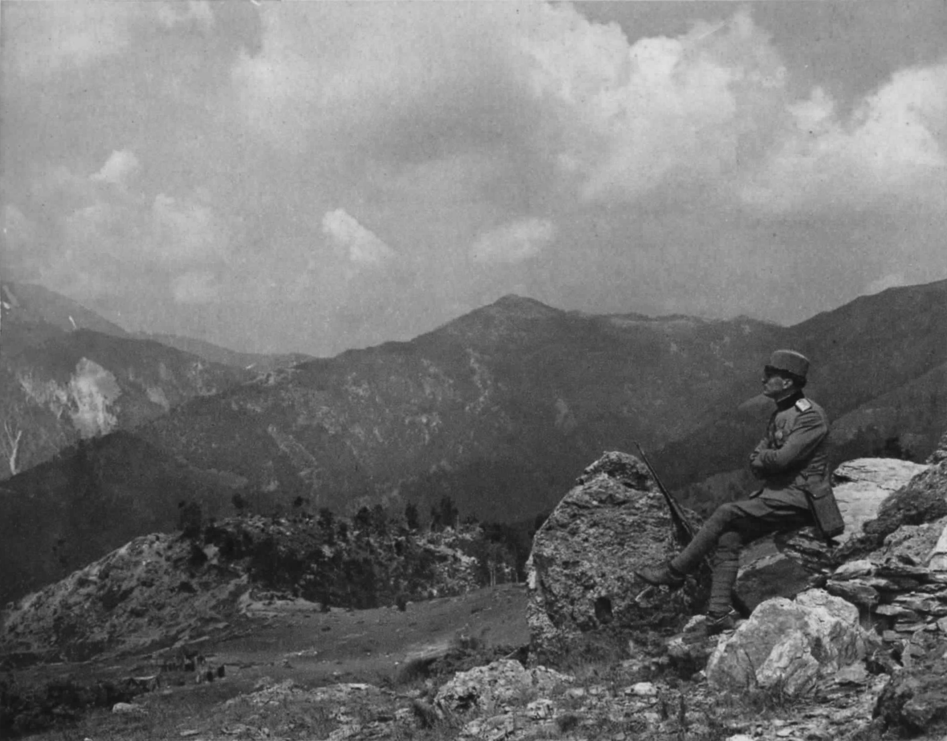 Serbian solider looking to Kaymakcalan massif from Gornji Požar. In the middle is Sokol mountain. To right side is ascent Pyramide.